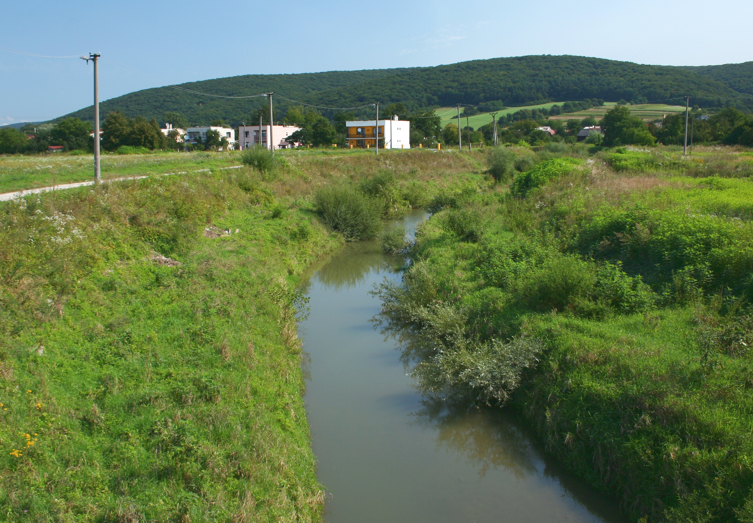 the Ol'ka river, Slovakia